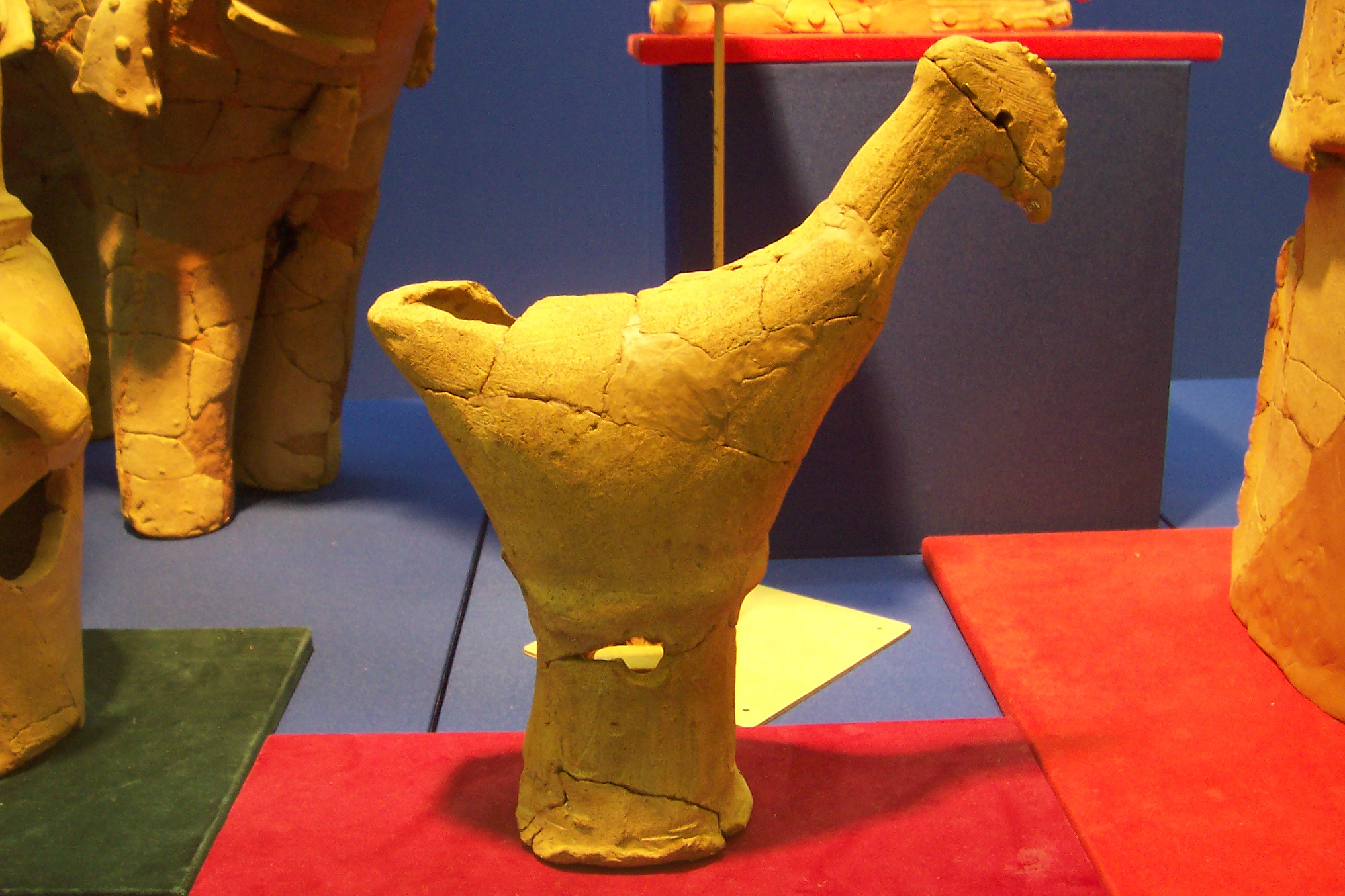 A Haniwa statuette of a chicken.